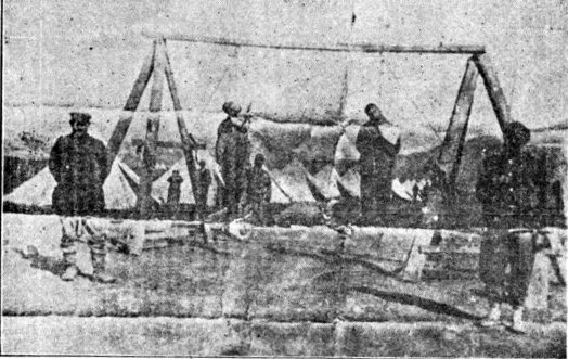 Armenians being hanged during the Armenian Genocide by German and Turkish guards